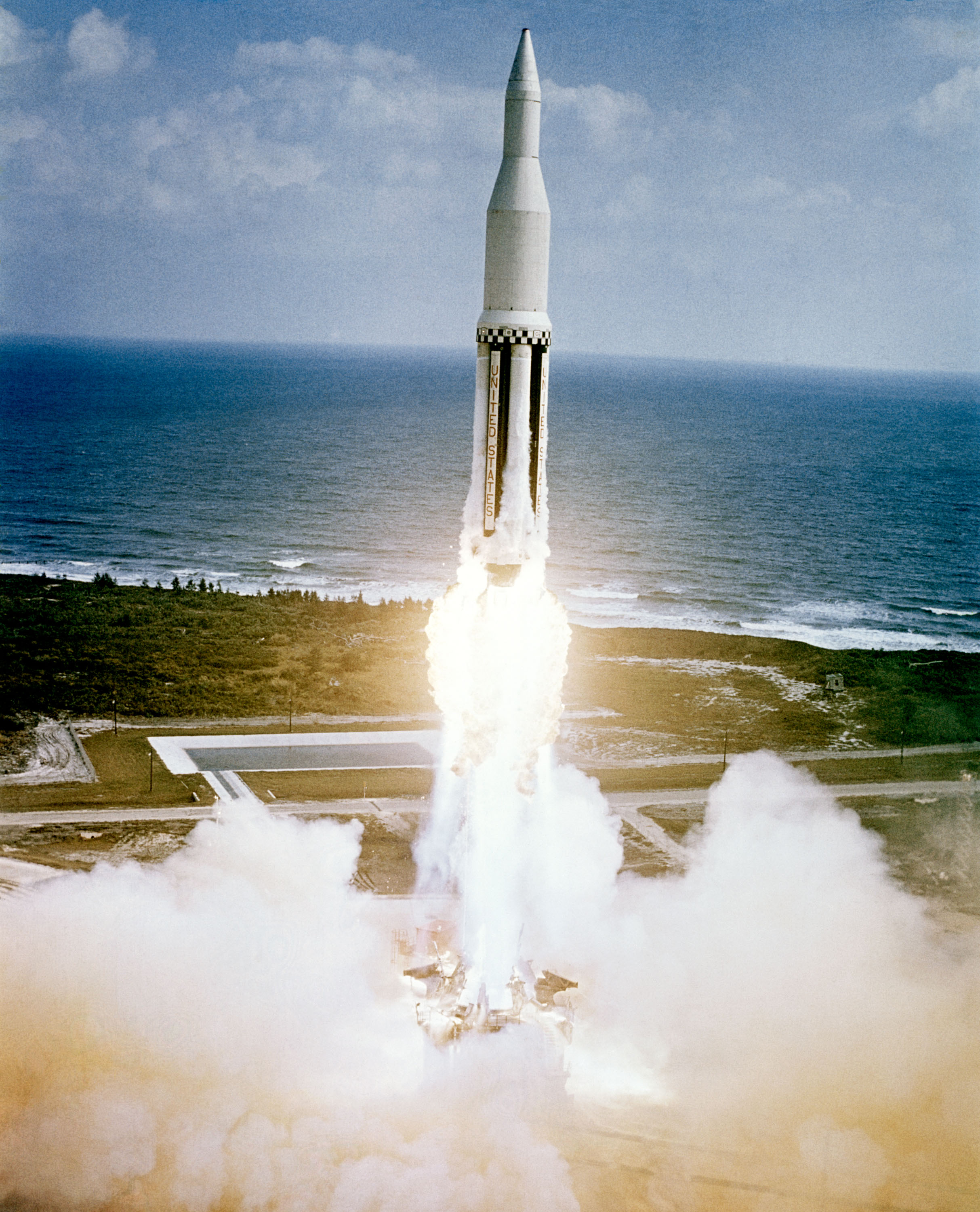 First Saturn (SA-1) launch.